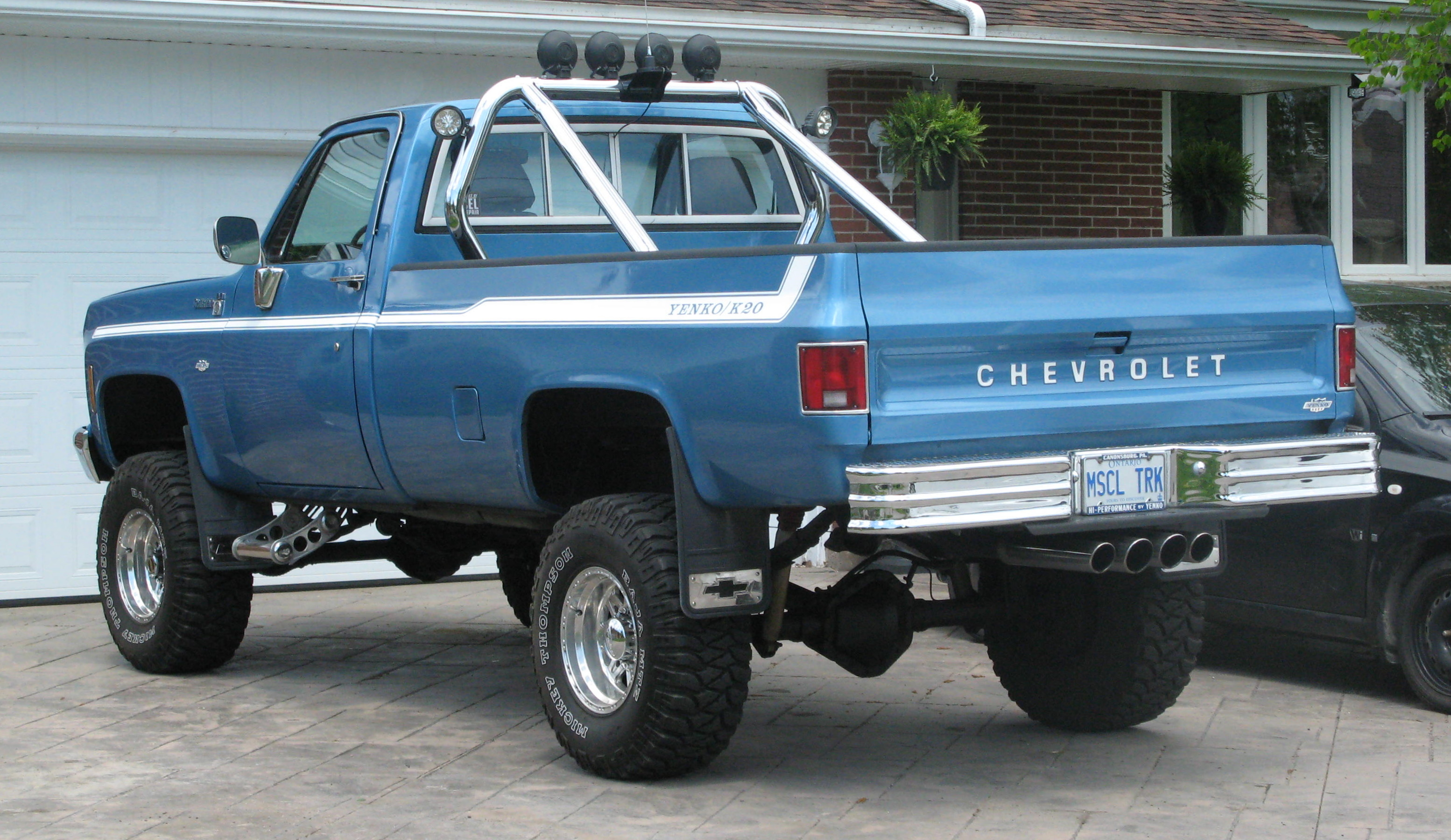 Chevrolet K20 (Yenko/K20) photographed in Sault Ste. Marie, Ontario, Canada